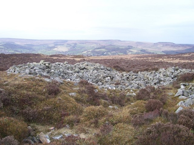 Eyam Moor cairn The remains of Eyam Moor cairn is just a few metres to the north of Wet Withens stone circle. The cairn was partially destroyed by workmen building the turnpike road to Hathersage in 1759. In 'Blacks Guide To Derbyshire 1881' the Eyam Moor Barrow is described as being 90ft in diameter and 35ft high. It is in a poor state of preservation but is a useful navigation aid for anyone visiting the nearby stone circle, being more visible.